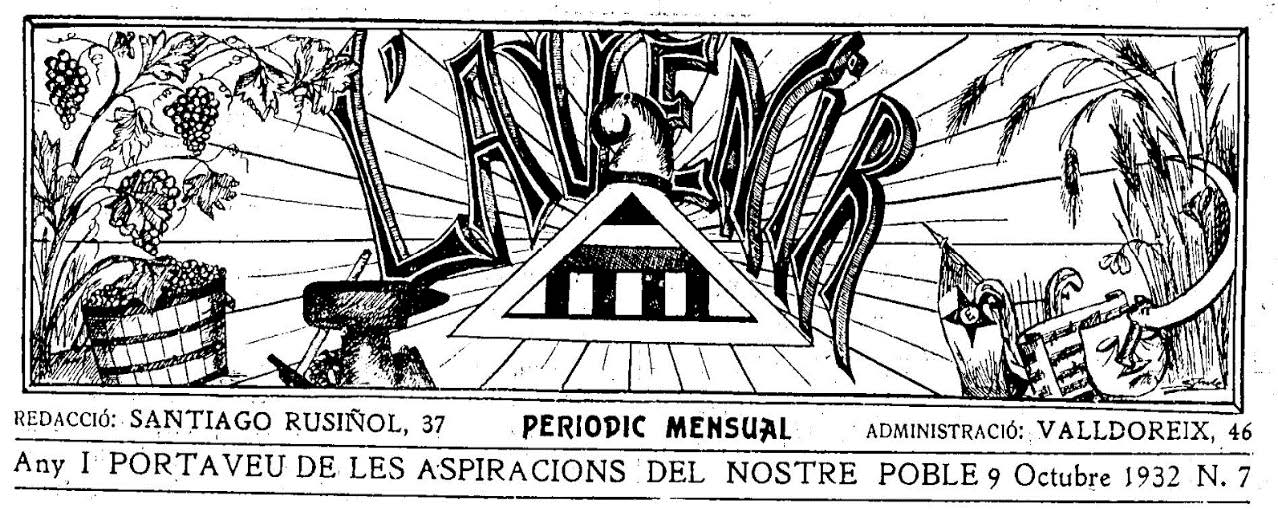 Capçalera de la revista del seté número